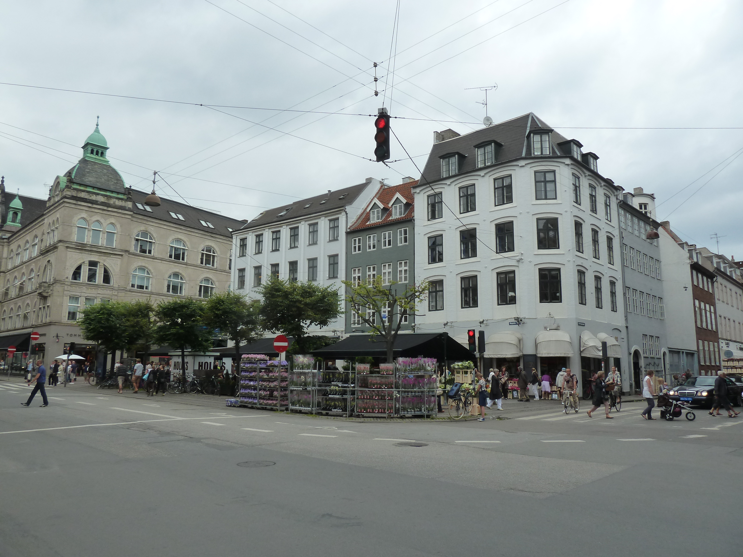 The square Magsins Torv in Indre By in Copenhagen.